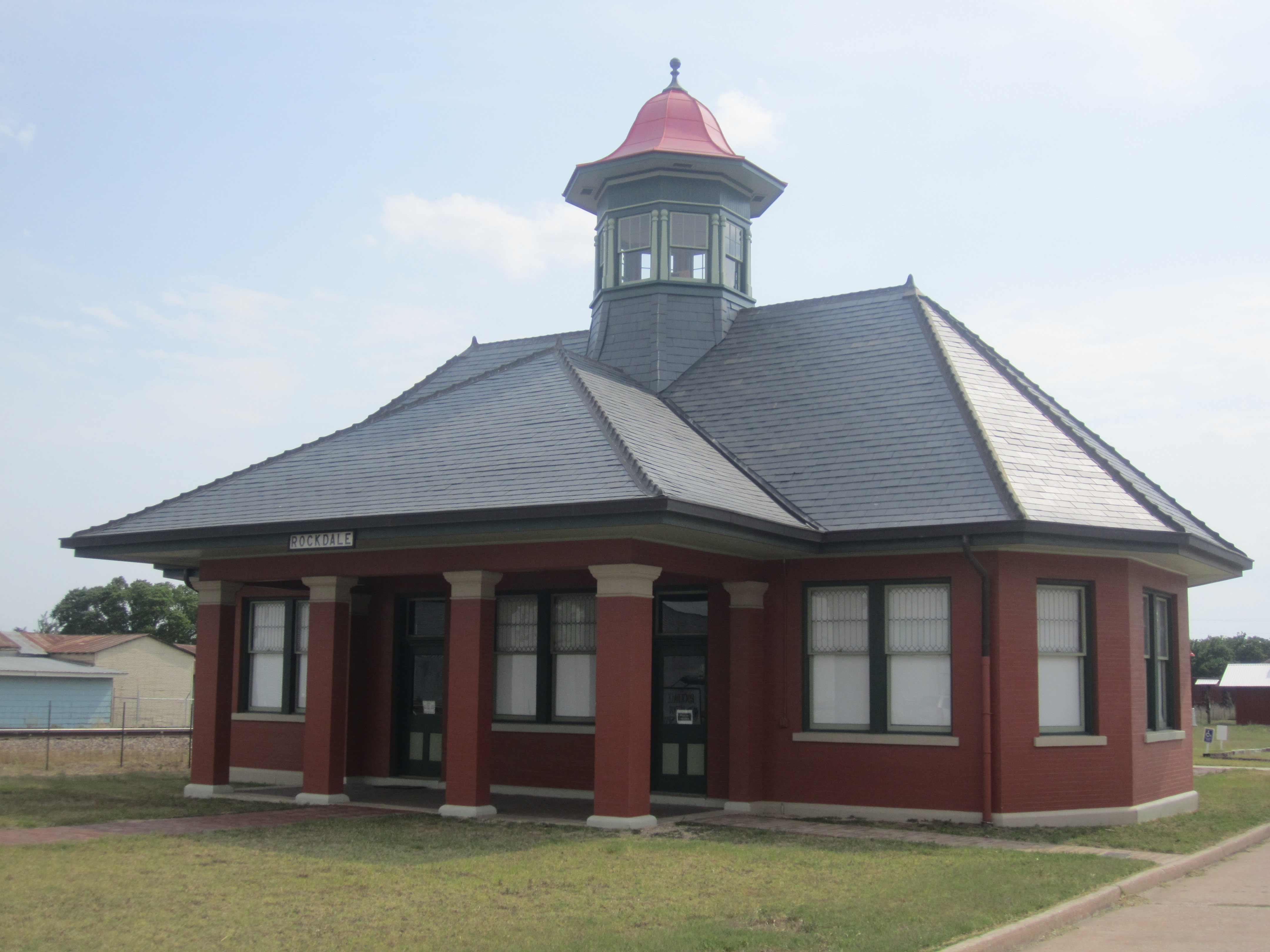 I took photo with Canon camera in Rockdale, TX: former International - Great Northern Depot building.